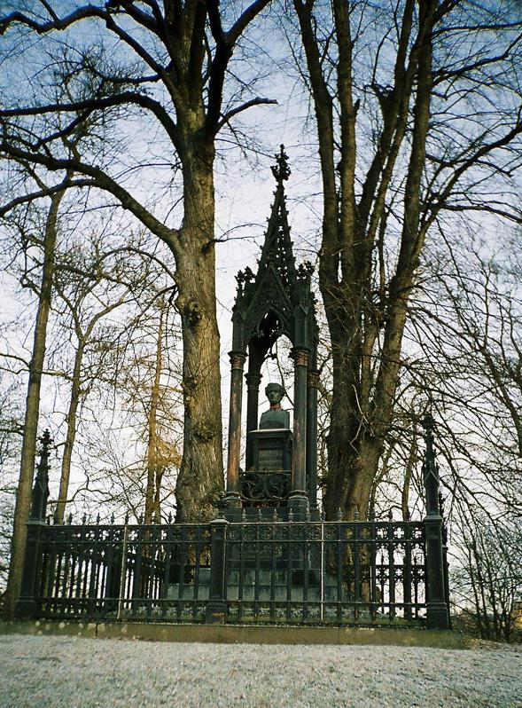 Prince Gustav of Sweden and Norway as sculpted by Carl Eneas Sjöstrand and dedicated in 1854Place: Haga Park, Solna, Sweden